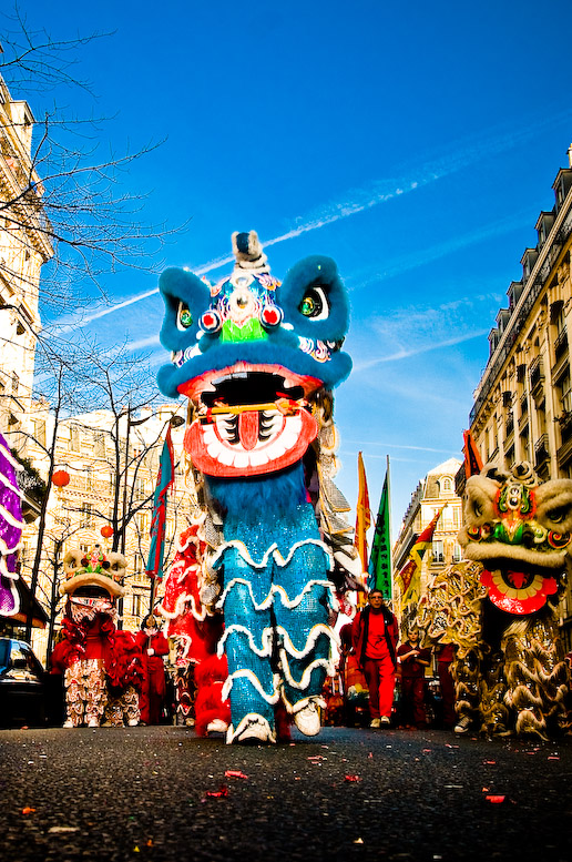 Celebrating the chinese New Year in Paris.